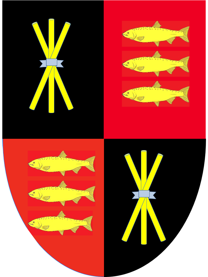 Coat of Arms of Rede of Roche Castle, Laugharne